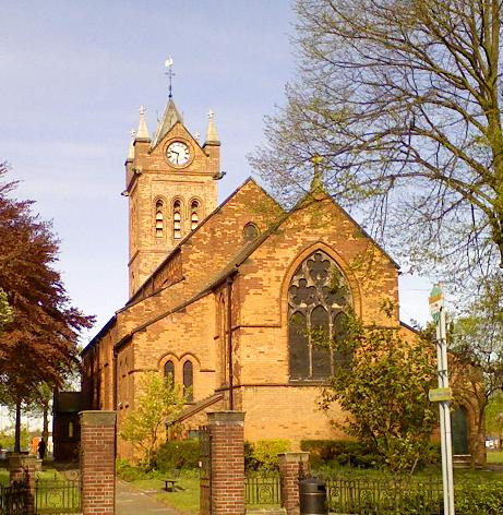 Image of All Saints Church in Bloxwich